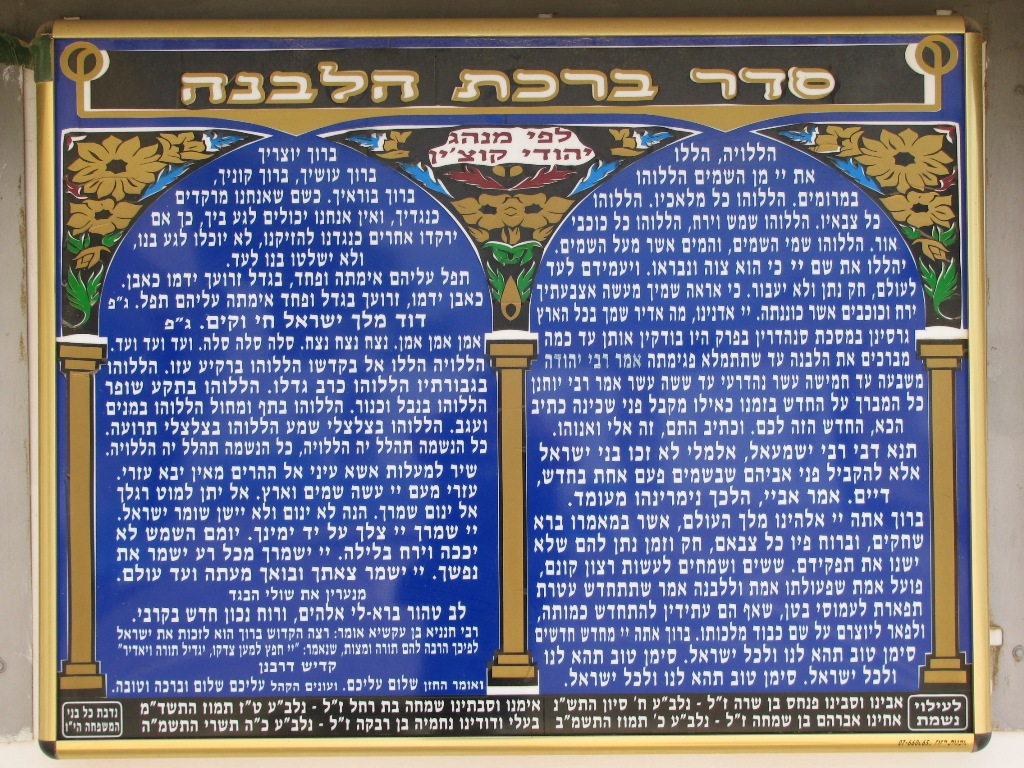 Prayer According to Jewish custom